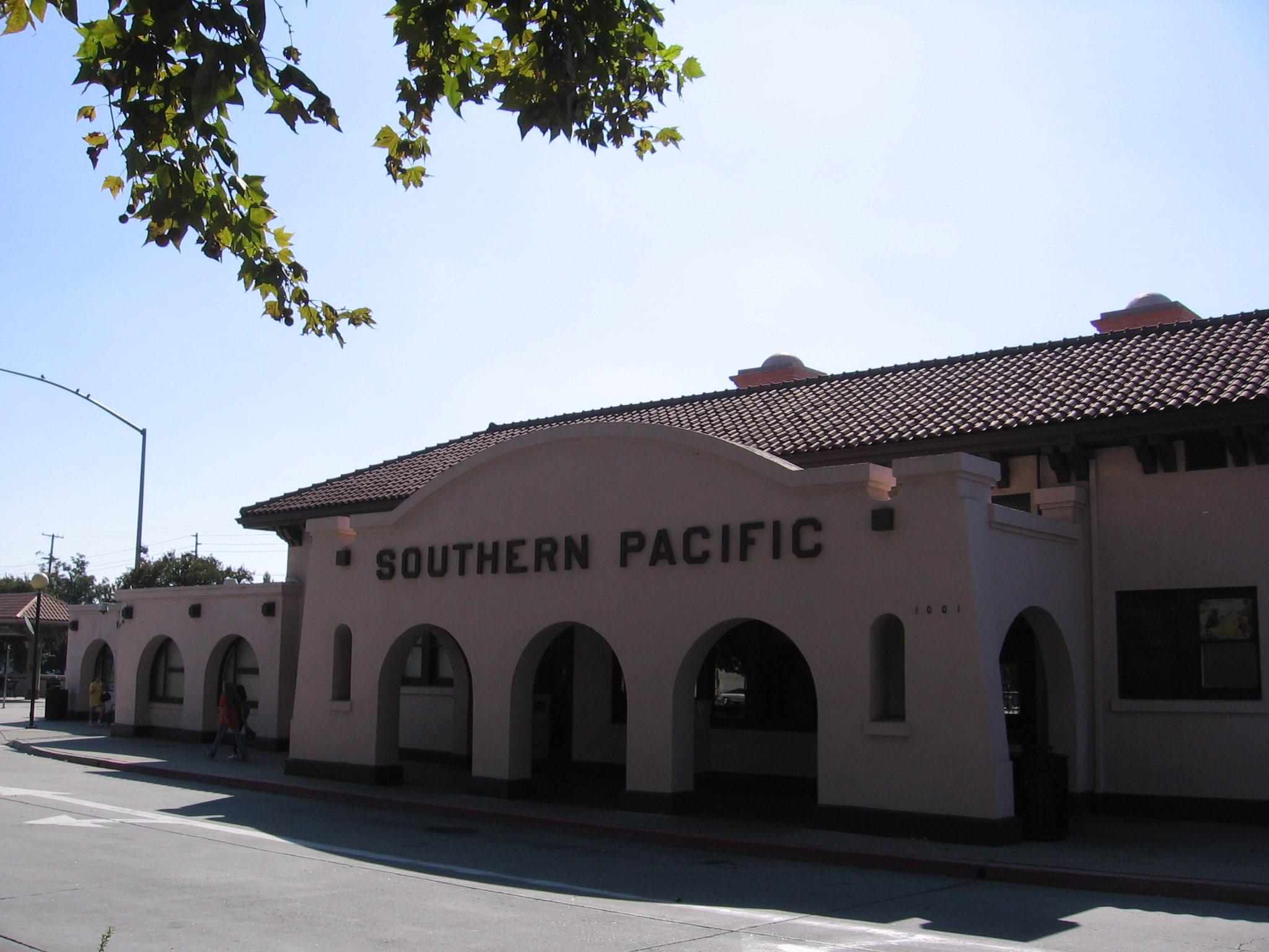 The Modesto Transportation Center in Modesto, California, USA is a bus station that used to be a Southern Pacific Railroad station.